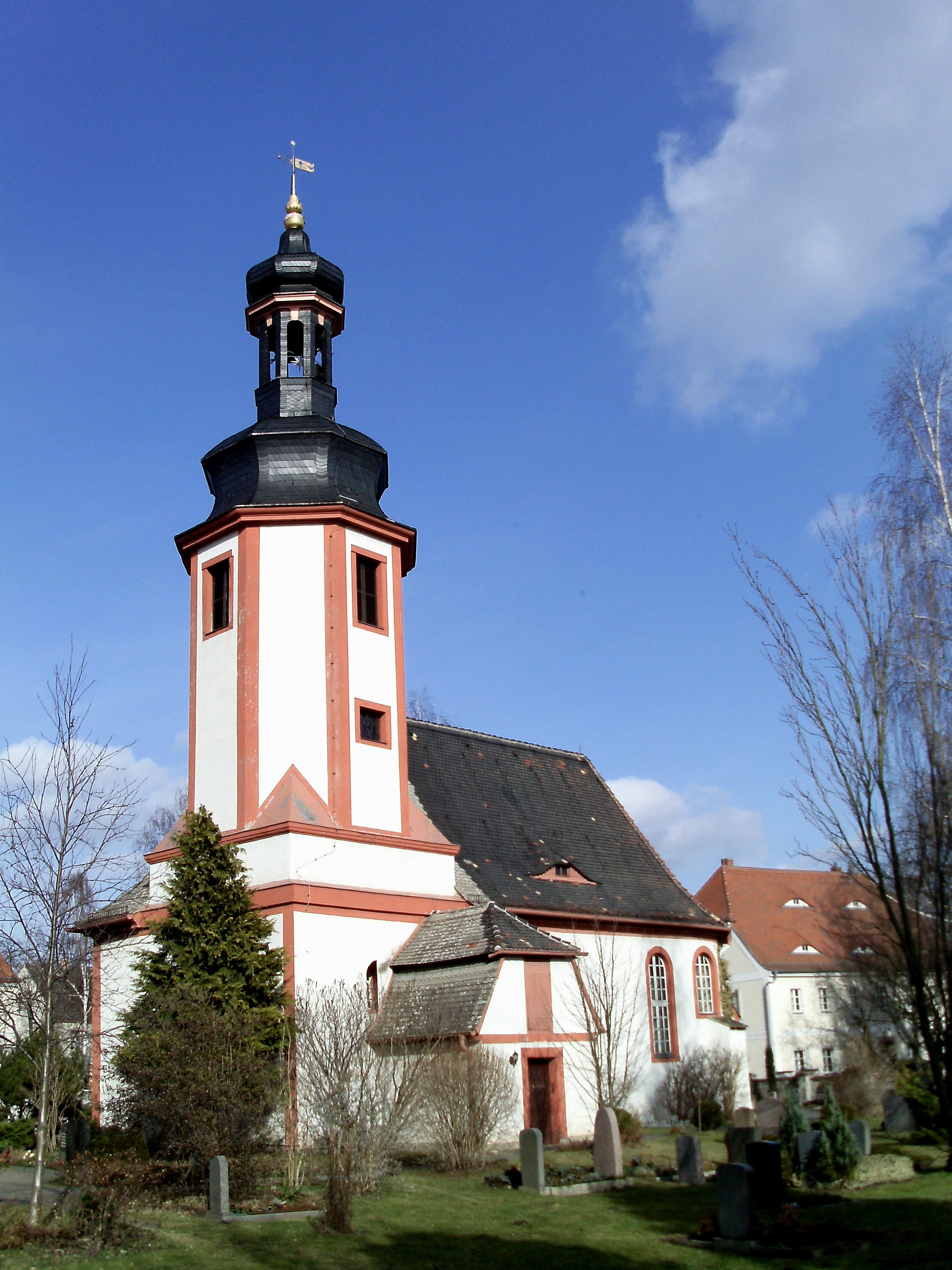 St. Martin Church in Plaussig (Leipzig, Saxony)